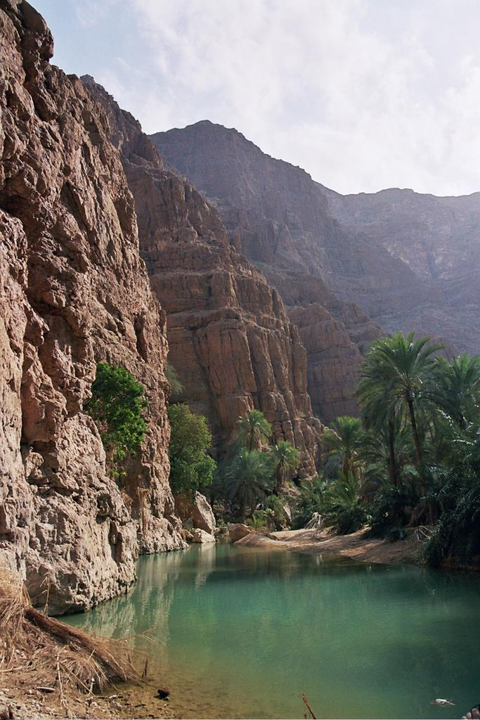 Wadi Shab is the most beautiful Wadi in Oman and one of the top attractions.